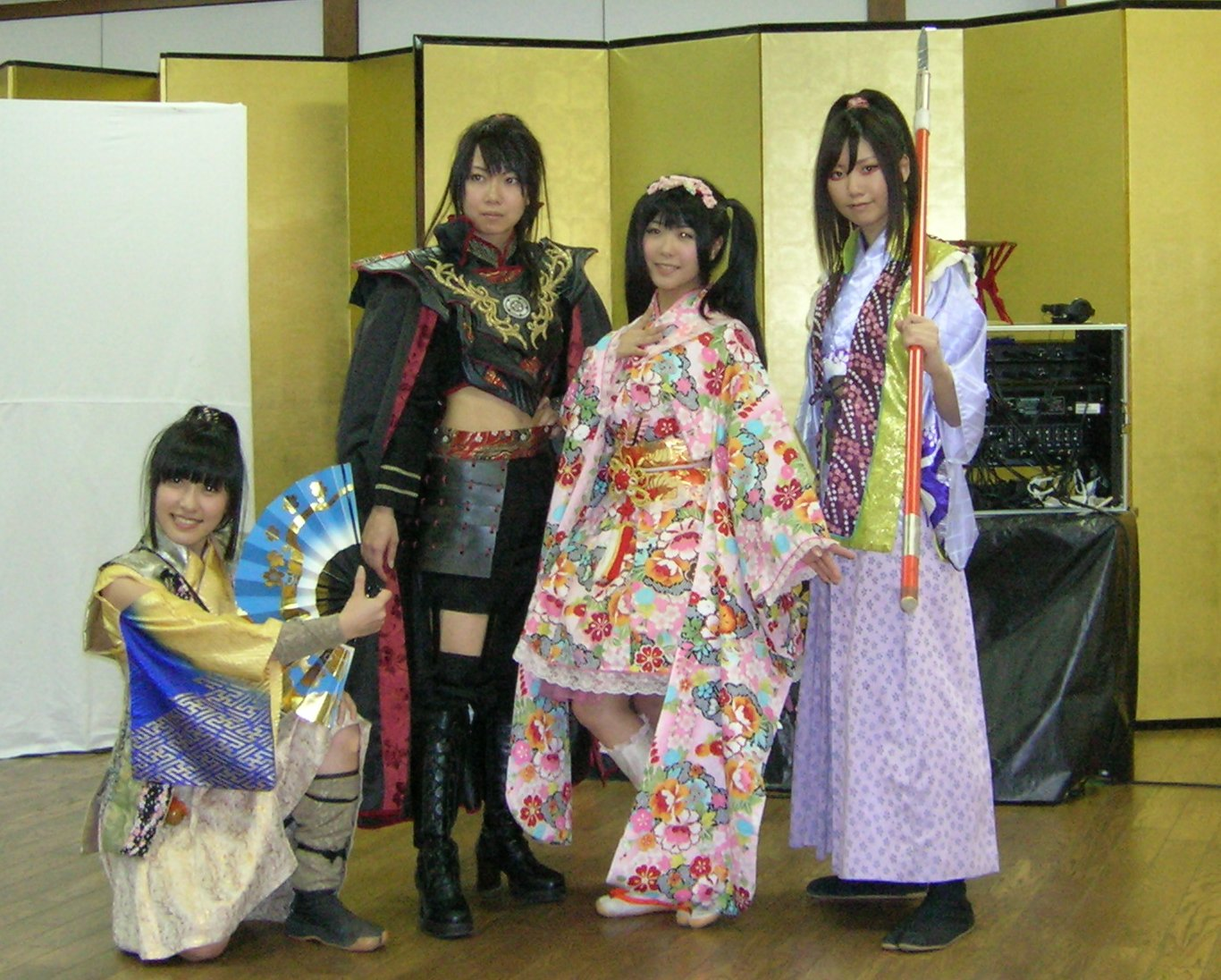 Kiyosu-jō Bushō-tai Loc: Kiyosu castle. Kiyosu city, Aichi Prefecture, Japan. 清洲城武将隊 桜華組 撮影場所 愛知県清須市・清洲城